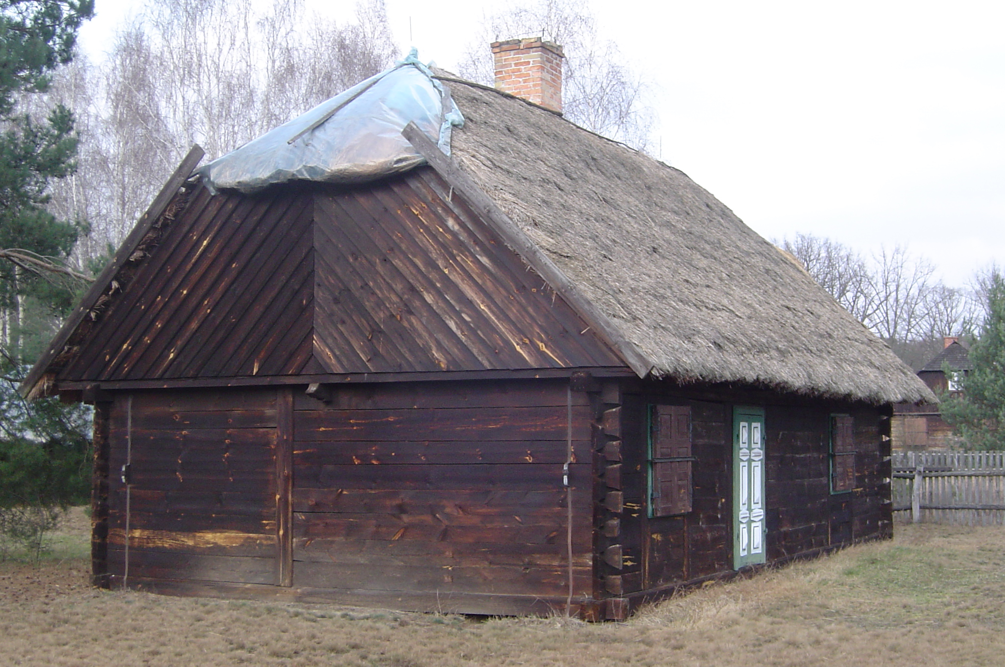 open air museum in Granica